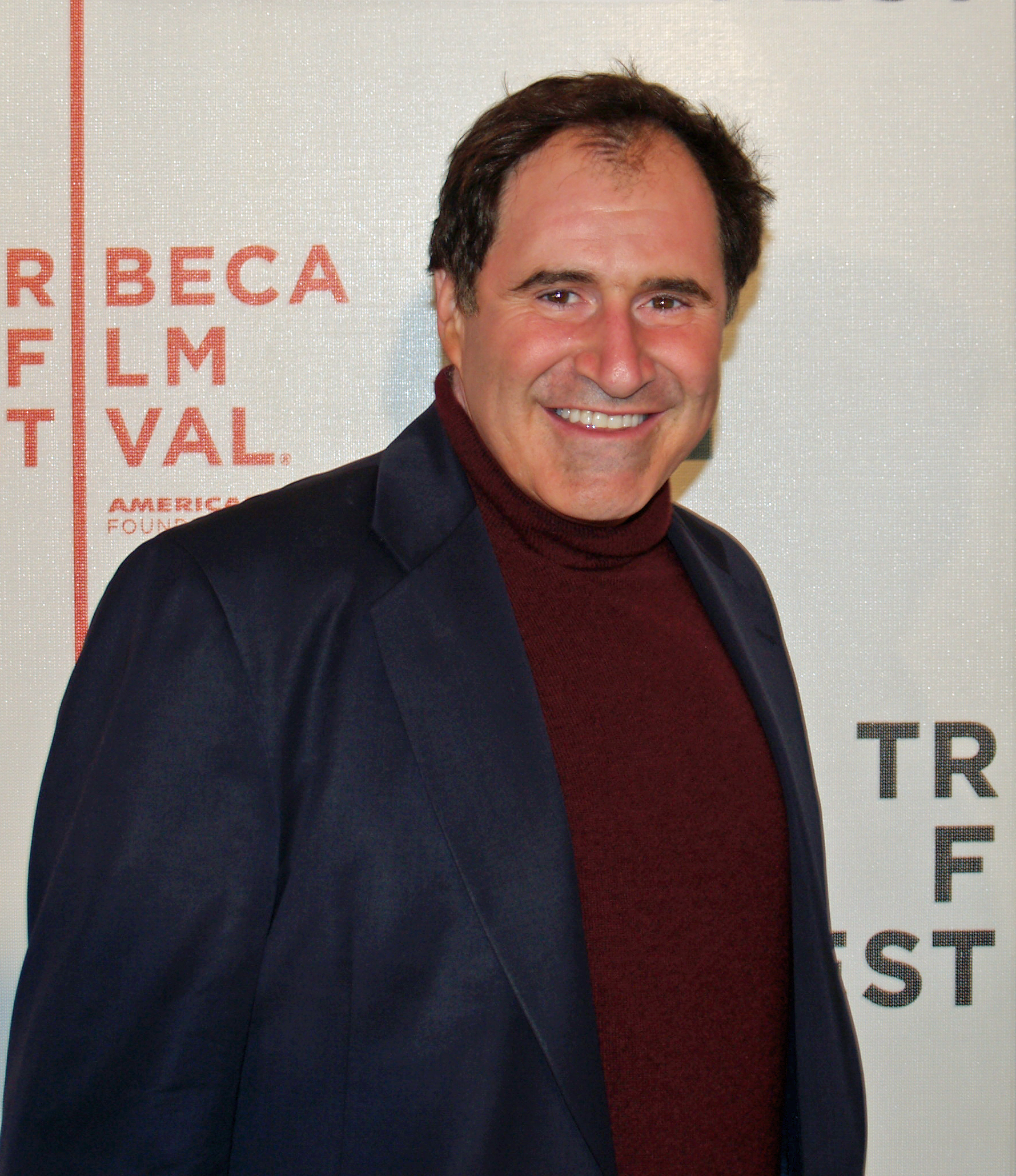 Richard Kind at the 2007 Tribeca Film Festival